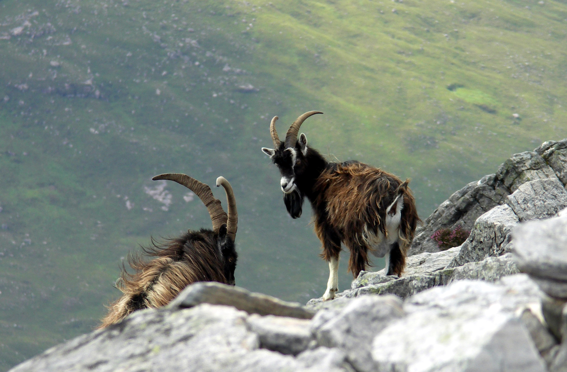 Mountain Goat encountered on An Teallach, Scotland. Details unknown, please help. I'd guess they are feral domestic goats. 67.101.145.80 20:20, 25 January 2007 (UTC)